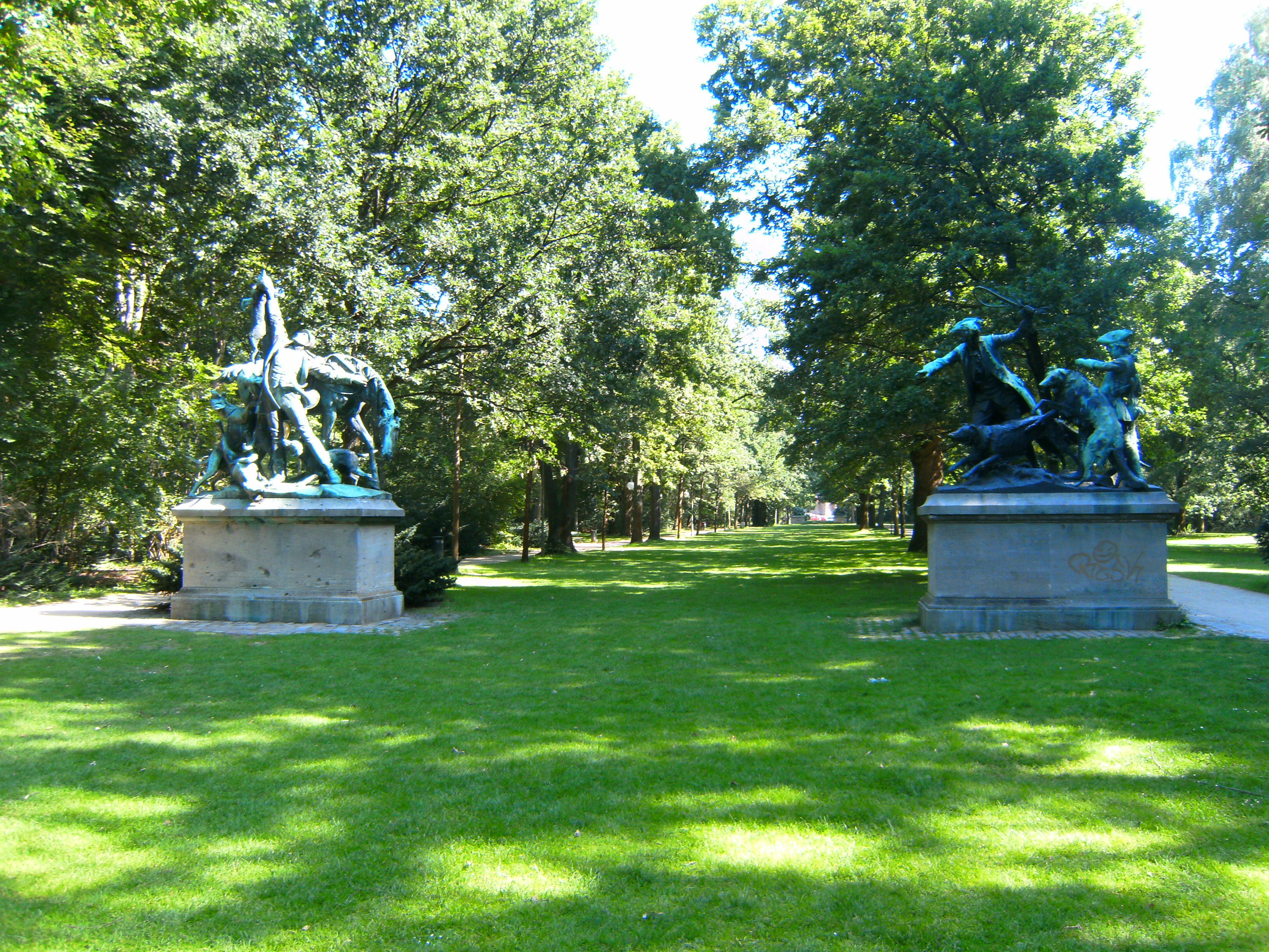 Großer Tiergarten in Berlin: Sculptures fox hunting and hare hunting at the foot path Fasanerieallee.